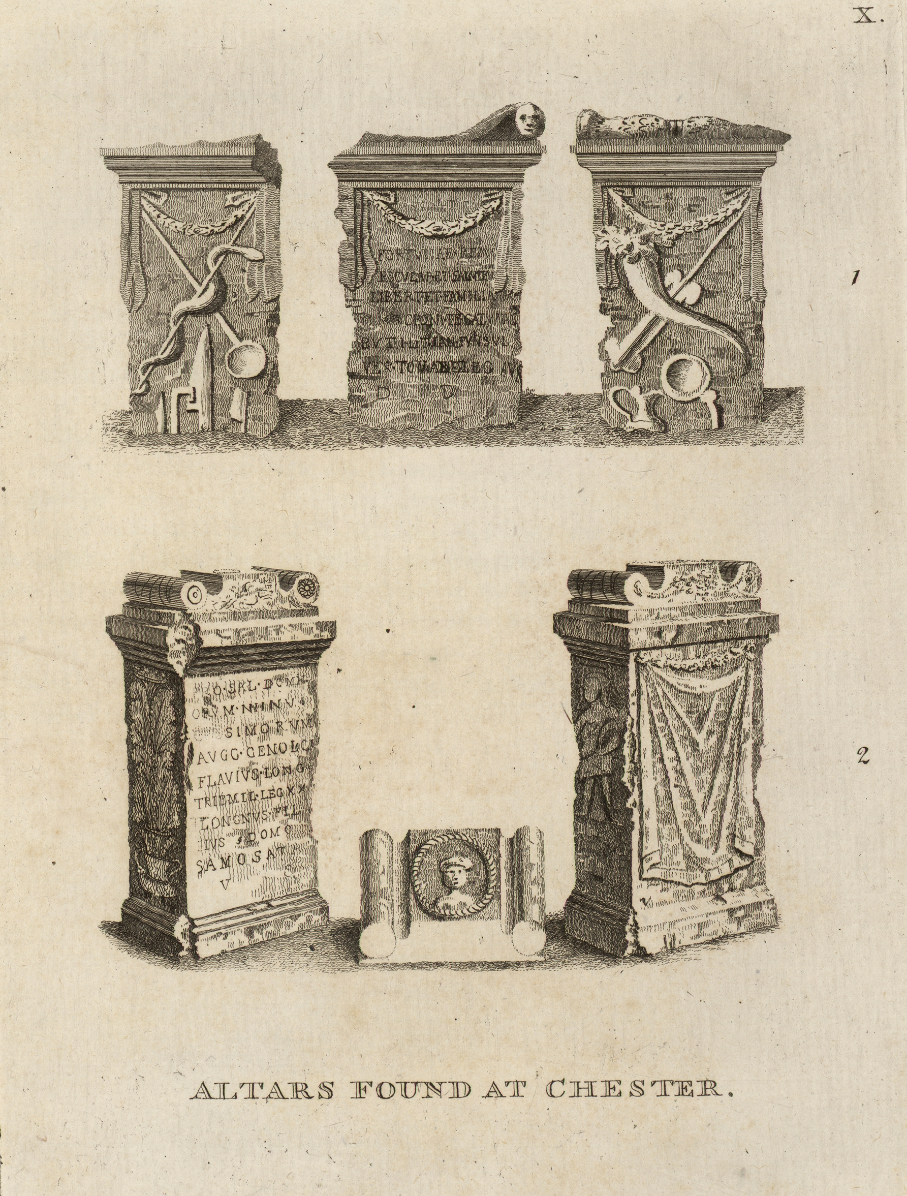 An image from a set of 8 extra-illustrated volumes of A tour in Wales by Thomas Pennant (1726-1798) that chronicle the three journeys he made through Wales between 1773 and 1776. These volumes are unique because they were compiled for Pennant's own library at Downing. This edition was produced in 1781. The volumes include a number of original drawings by Moses Griffiths, Ingleby and other well known artists of the period. Thomas Pennant (1726-1798)